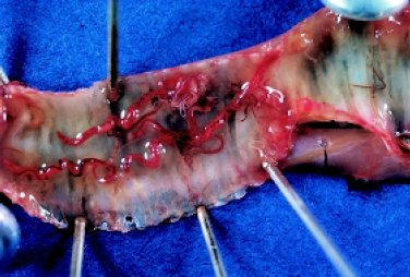 Syngamus trachea (gapeworm) in the trachea of a ringnecked pheasant.